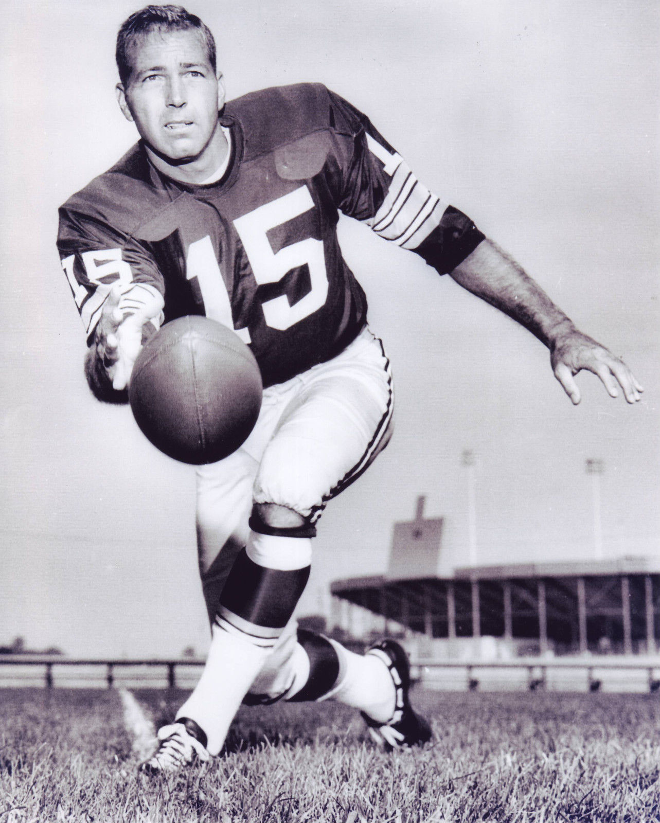 American football player Bart Starr, who spent his entire career with the GB Packers.